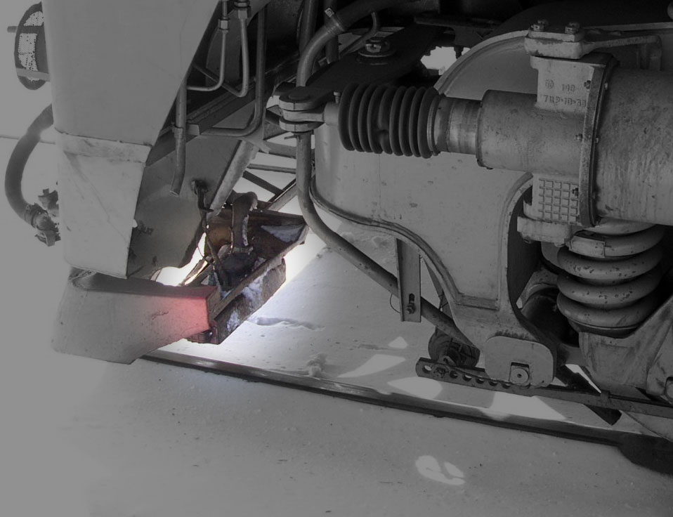 An inductor of the russian railways' cab signalling system KLUB on a TEP70 diesel locomotive